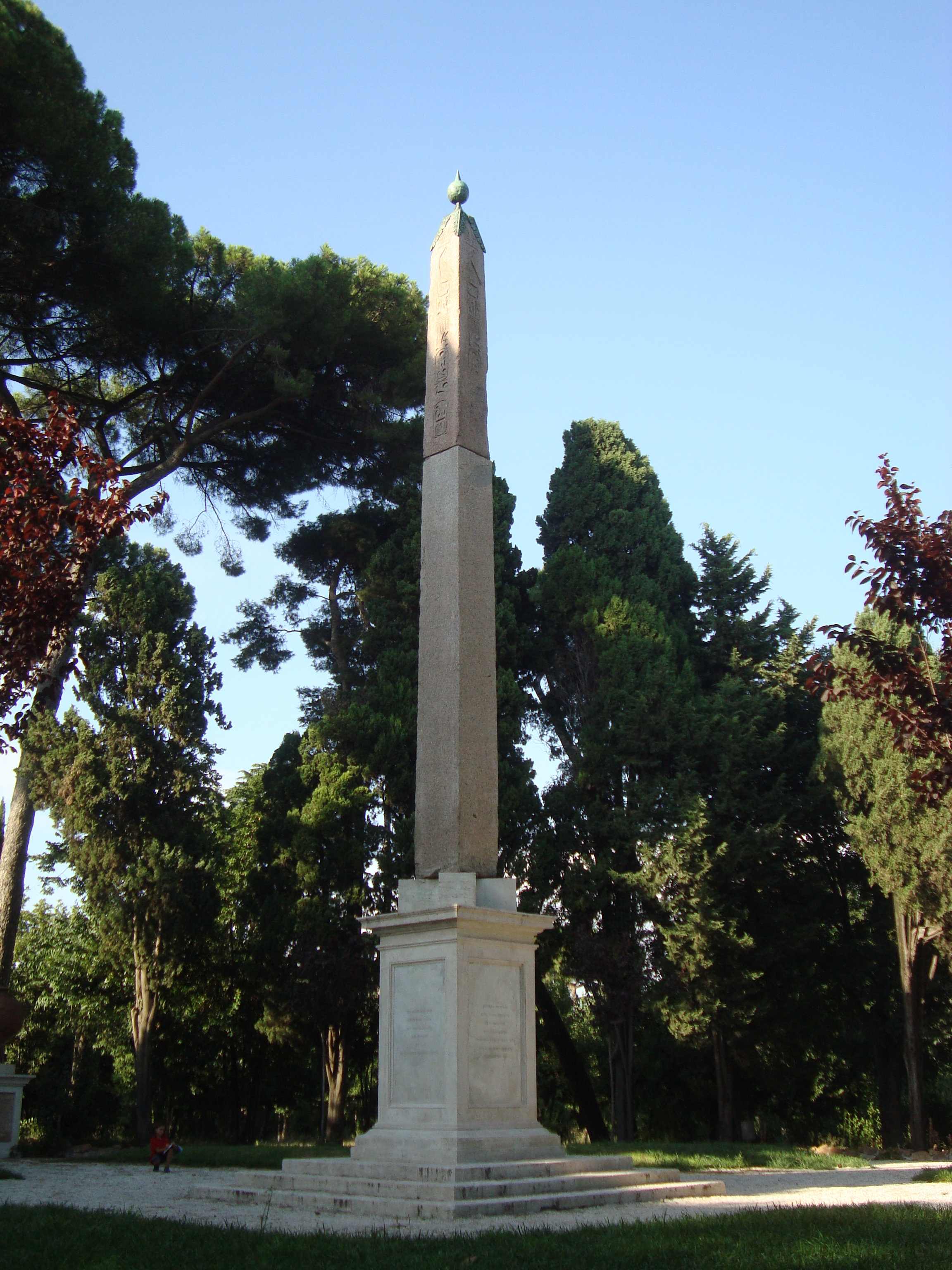 Obelisk in villa Celimontana, Rome